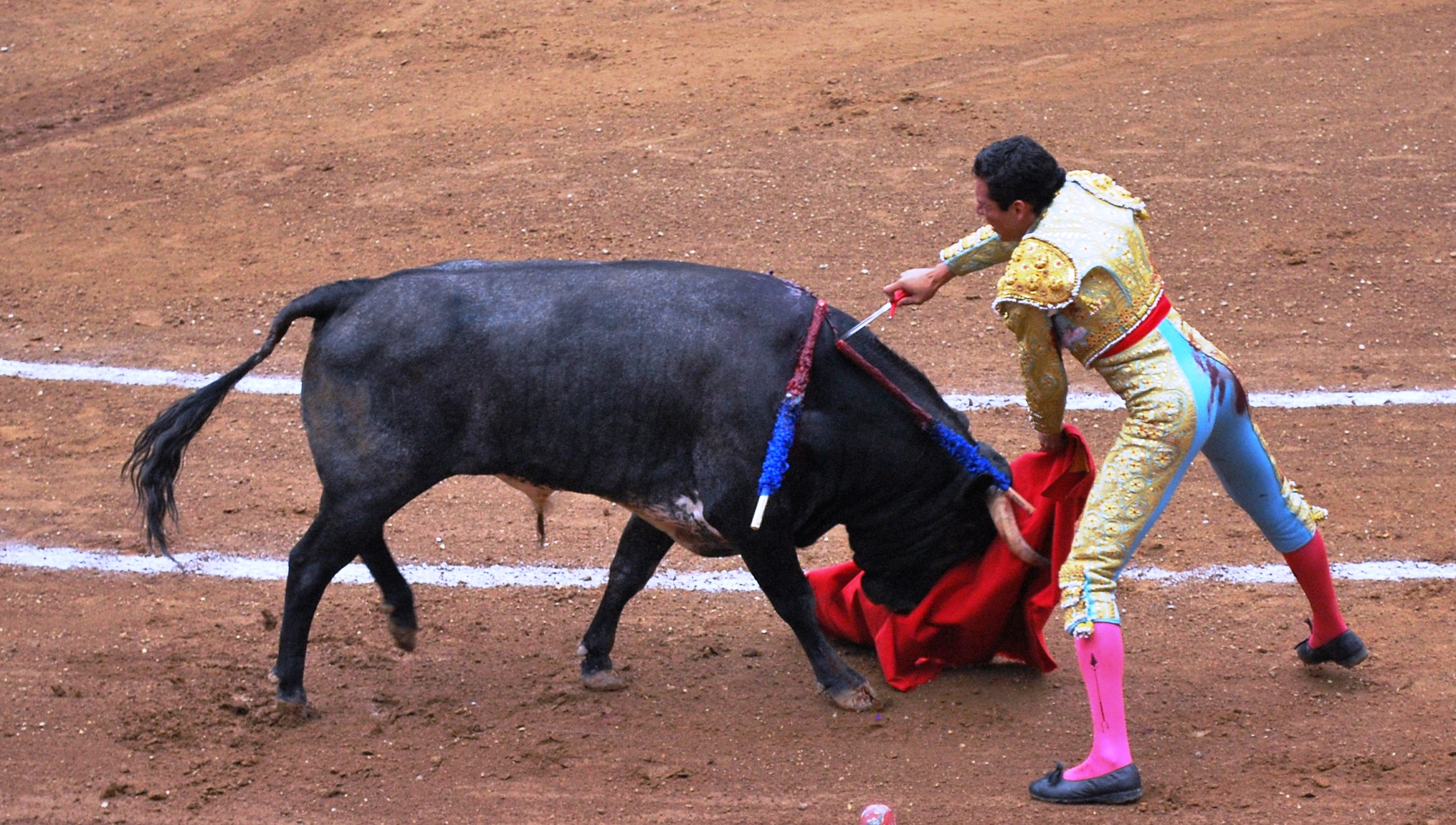 2nd estocada of Platero by matador Jaime Manuel Ruiz Torres at the 28 June 2009 event at the Plaza de Toros in Mexico City.